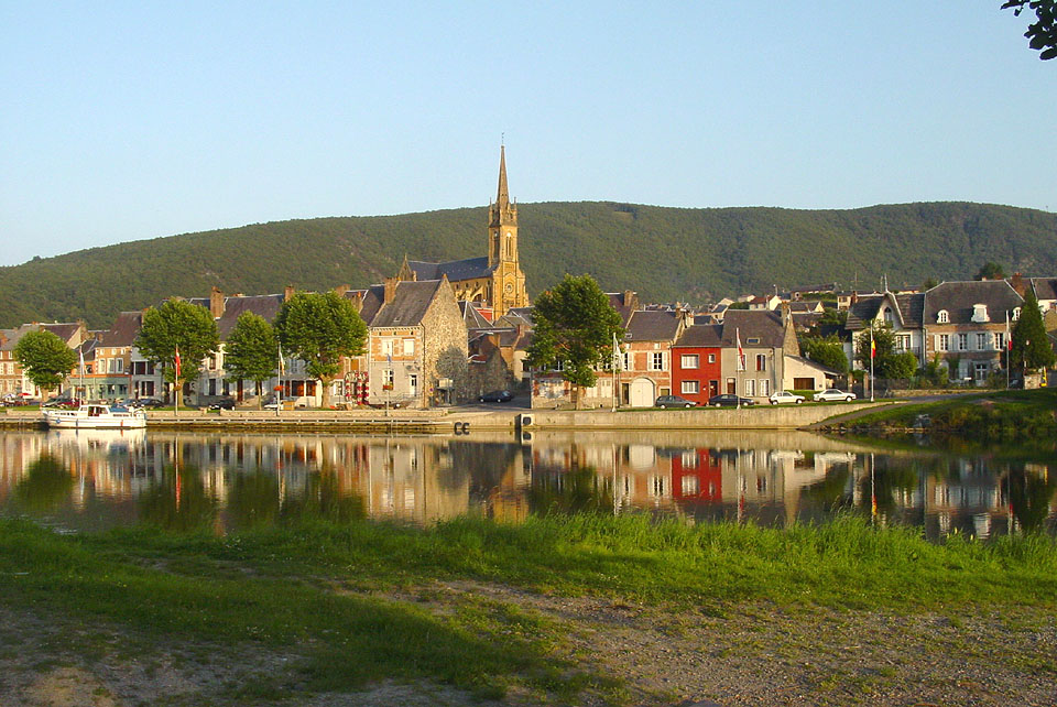 Fumay across the river, from the north, near the bridge to Haybes, taken by David Edgar in the evening on 2005-09-03.